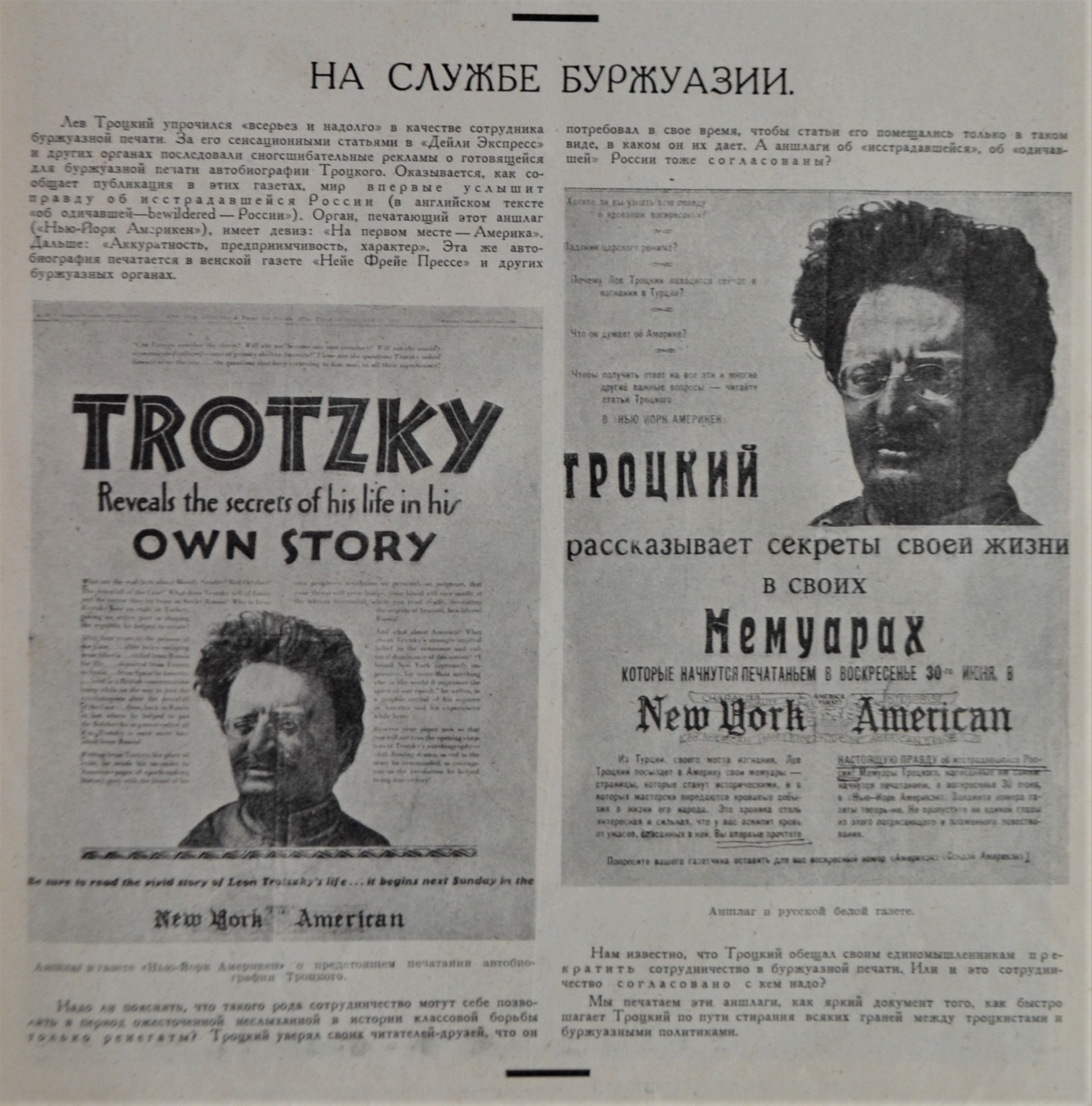 The publication of My Life (Leon Trotsky autobiography) as reported in the USSR. The editors of Projector titled the publication: "On the service of bourgeoisie".